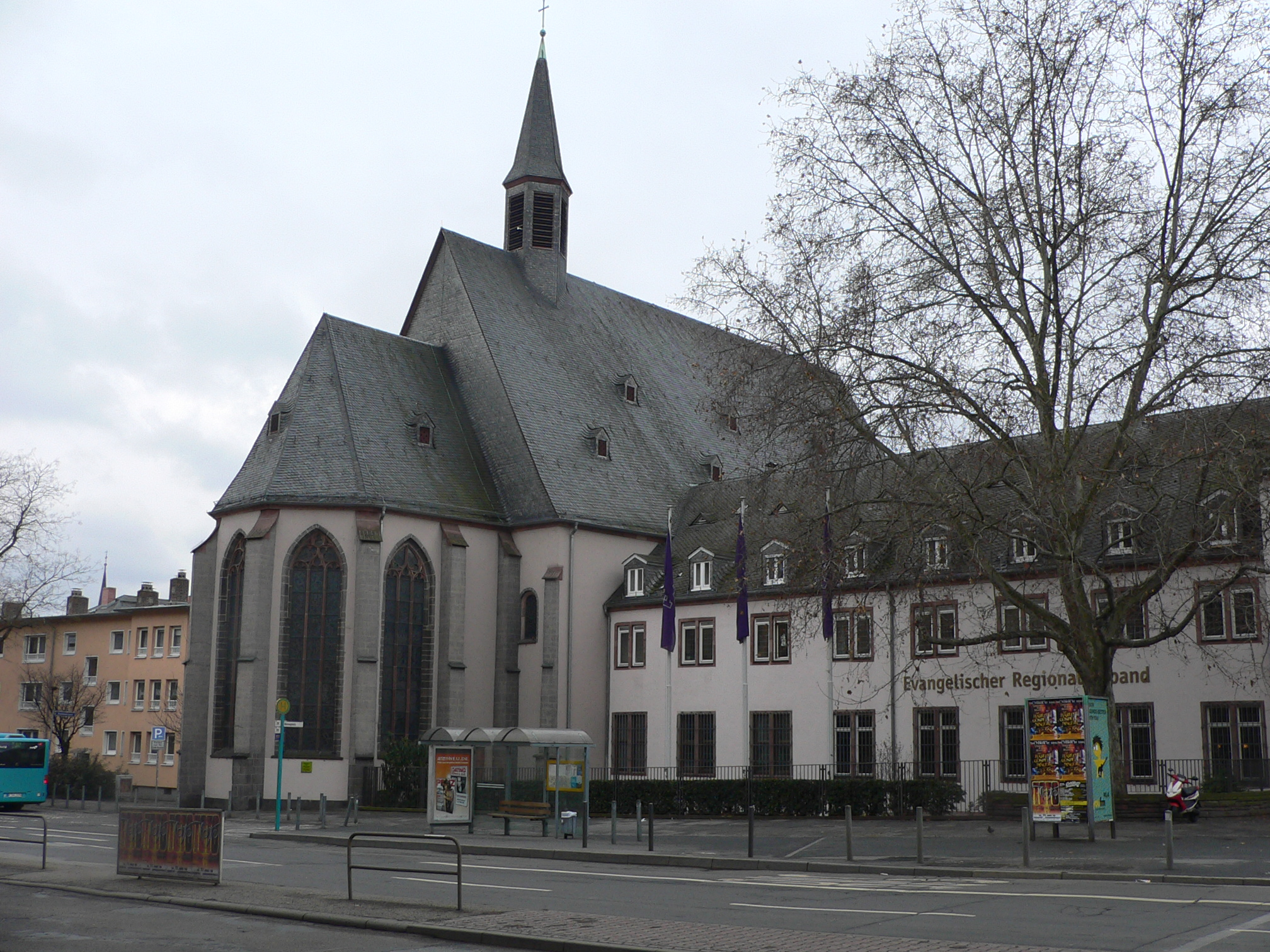 Frankfurt am Main, Germany Heiliggeistkirche und Dominikanerkloster (Church of the Holy Spirit and Monastery of the Dominicans)